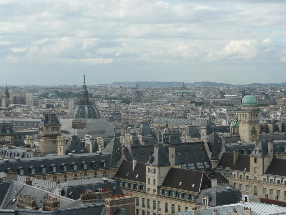 Paris from le Panthéon. Sorbonne avec dôme de la chapelle Sainte-Ursule et tour du laboratoire.